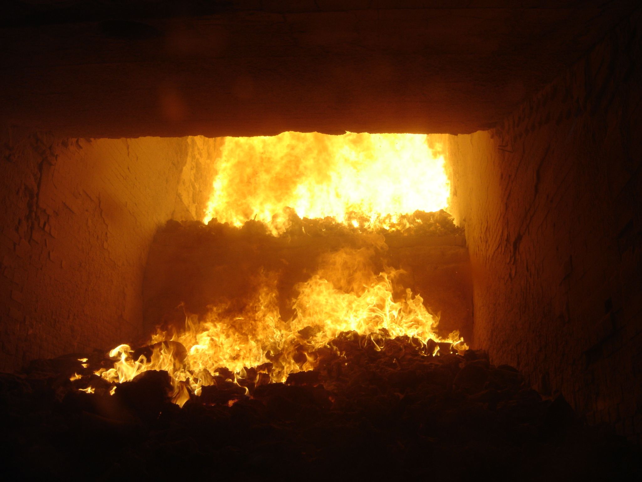 waste incinerator at Strasbourg